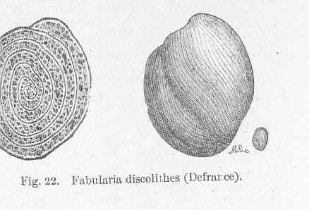 Fabularia discolithes (Defraroe) Subject: Foraminifera, Fabularia Tag: Invertebrates